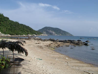 Cham Islands, Vietnam.